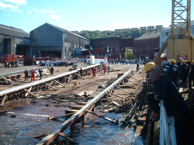 After the launch, at Ferguson Shipbuilders, Port Glasgow, Scotland.